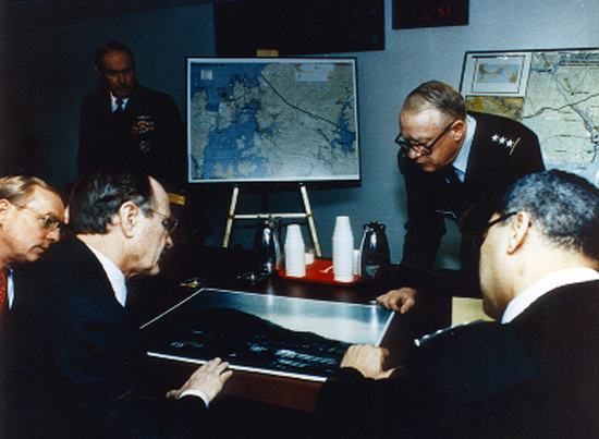 President George H.W. Bush being briefed by the Defense Intelligence Agency (DIA) during the 1989 US invasion of Panama